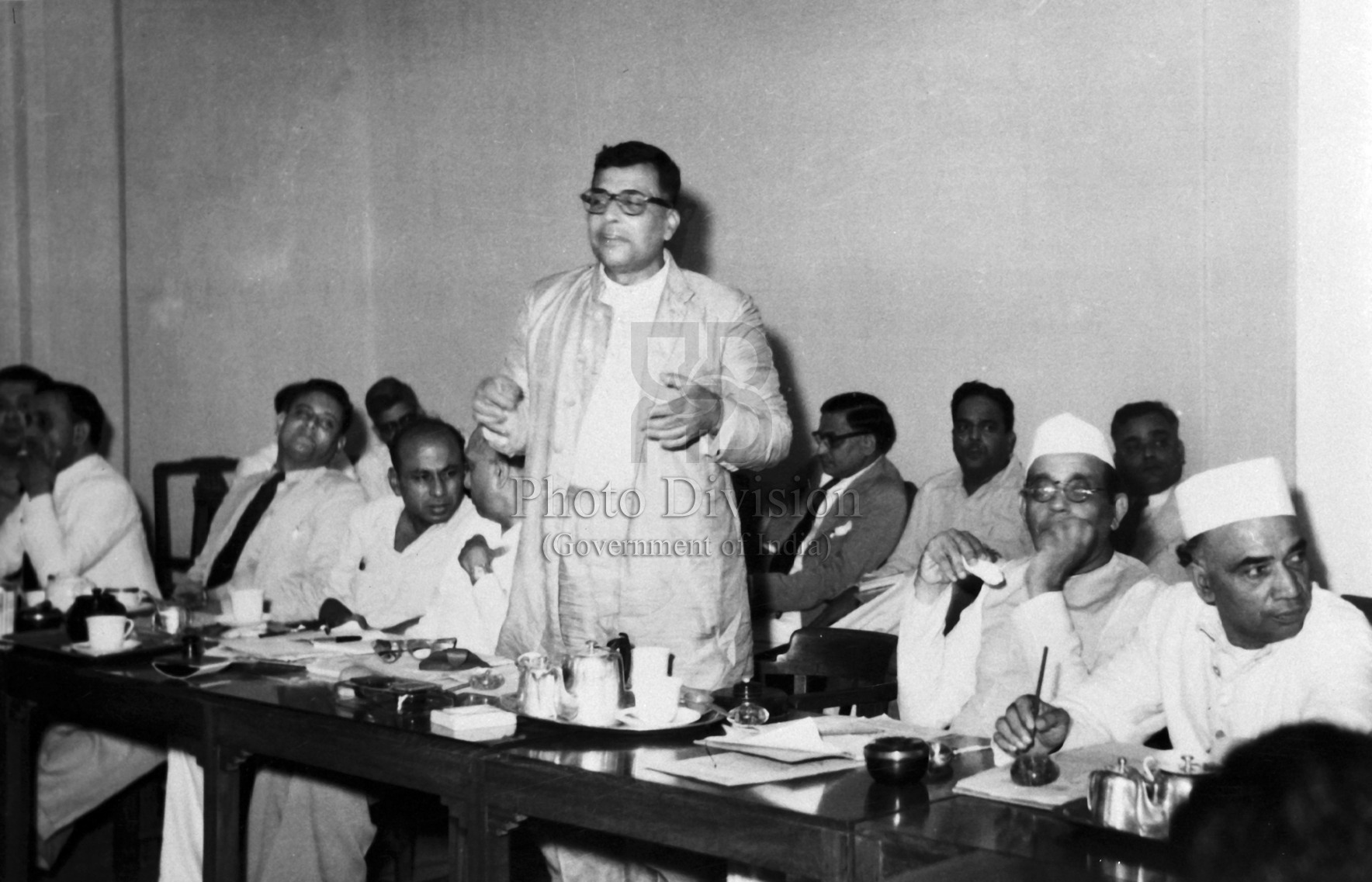 Bombay Office/June,1950,A22jThe Hon ble Shri Hare Krishna Mahatab, Minister for Industry and Supply,Govt. of India, addressing the Textiles Advisory Committee Meeting held in Bombay in June, 1950. Among others who appear in the picture are Shri D.N. Desai, Shri Naik Nimbalkar Ministers of the Government of Bombay, Shri S.A. Venkataraman and Shri A.K. Roy. Dr. Rajendra.Photo Number:-14690